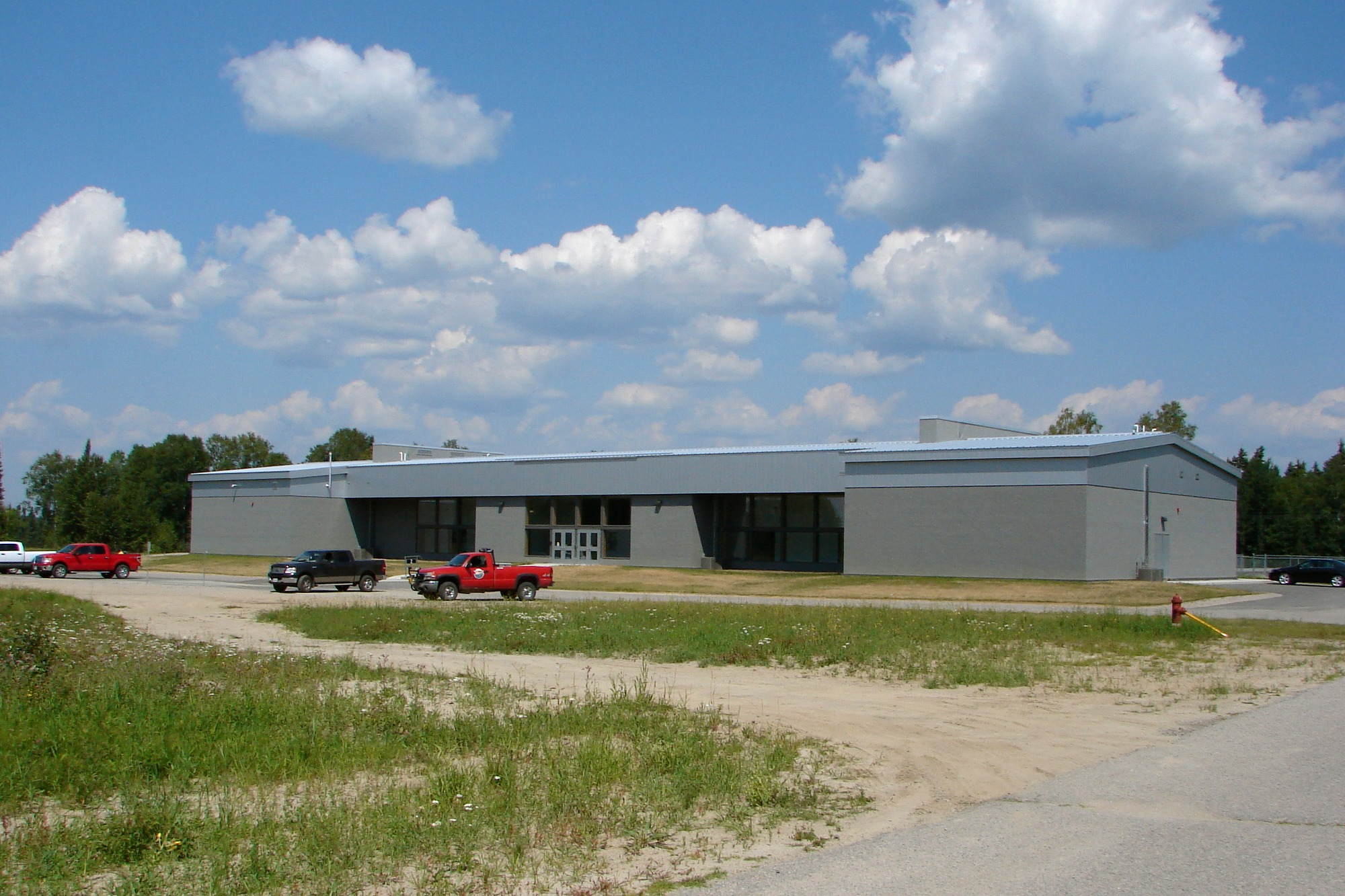 Municipal complex and offices of Ear Falls, Ontario, Canada